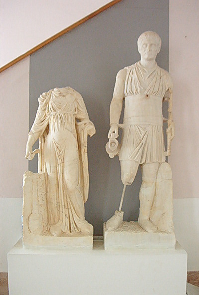 statues romaines Carthage National Museum